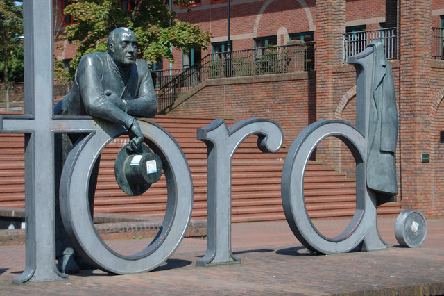 Statue of Thomas Telford in Telford Square (outside Telford Court) by sculptor Andre Wallace in Telford, England